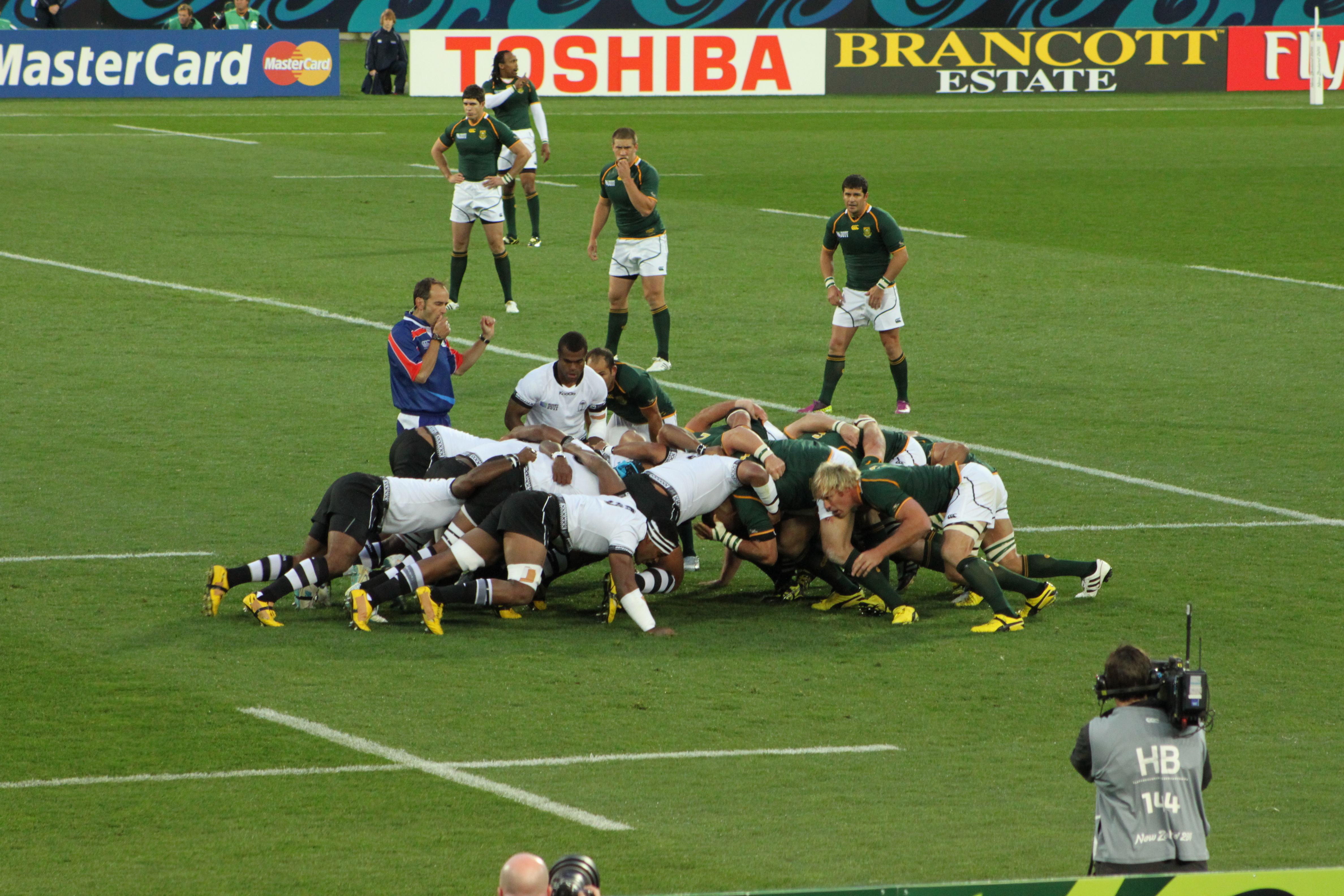 Match between South Africa and Fiji during 2011 Rugby World Cup in New Zealand.